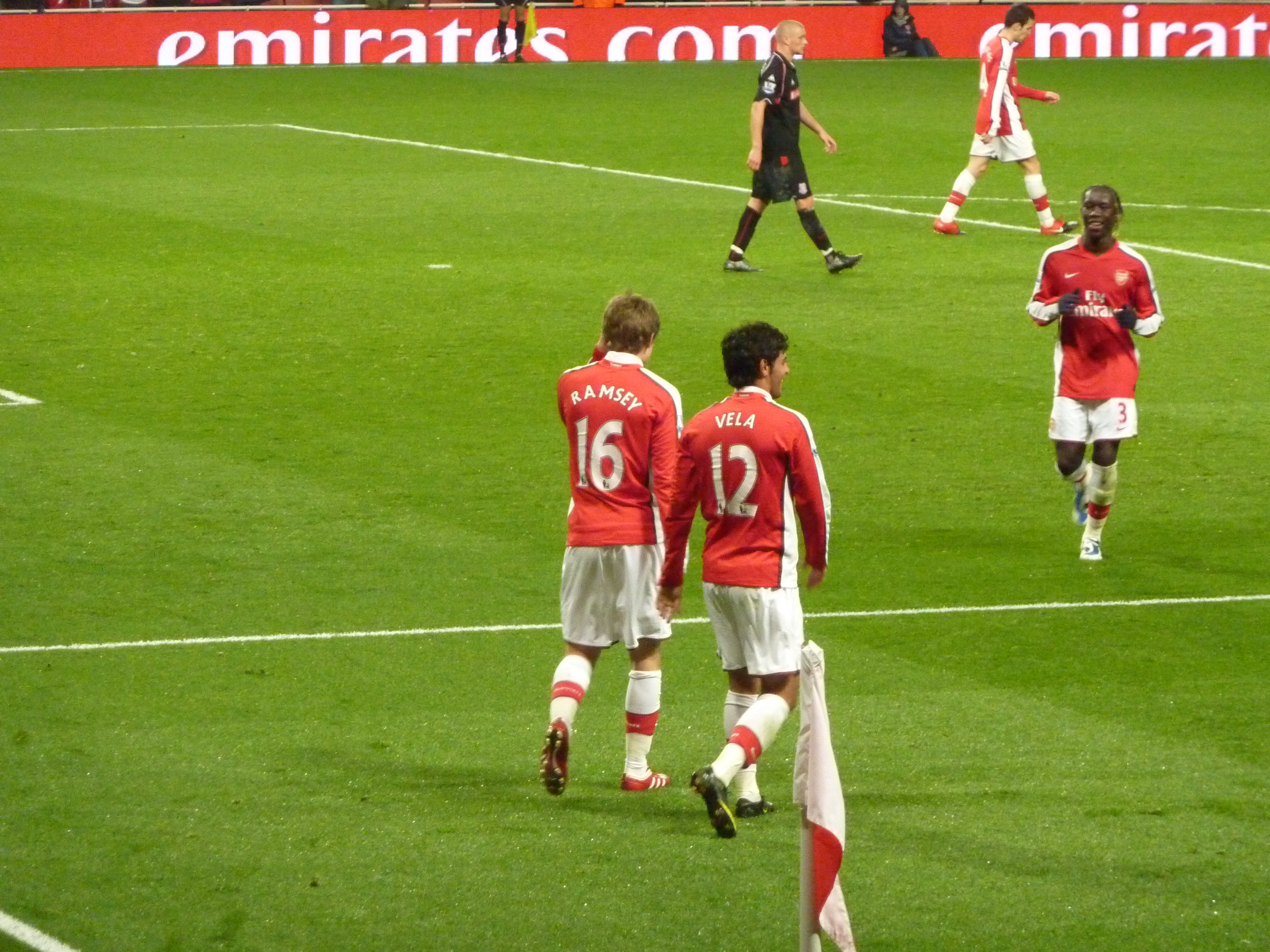 Carlos Vela with Aaron Ramsey